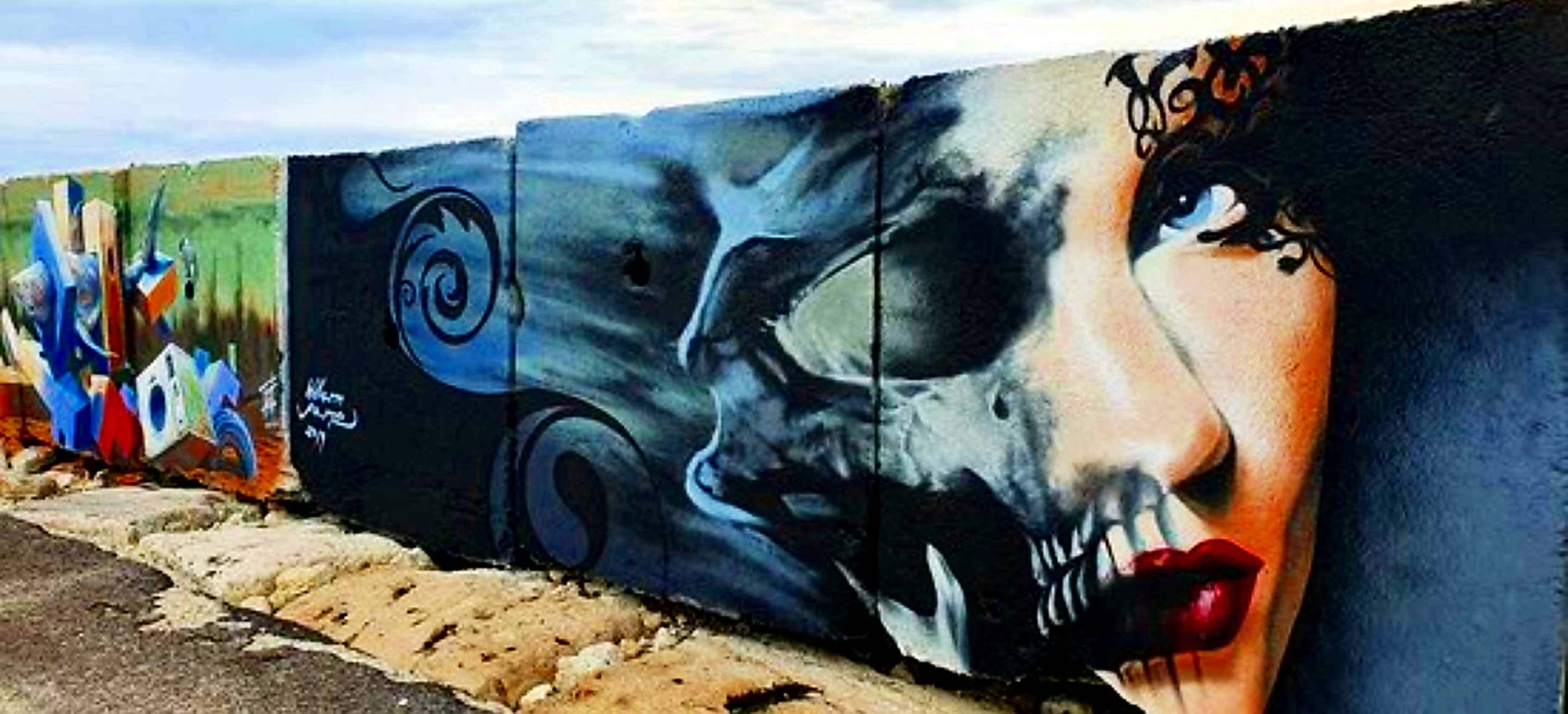 San Benedetto del Tronto, Museum of Art on the Sea (MAM) at the south pier